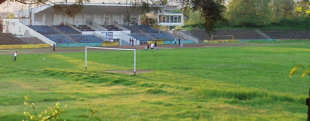 Stadion_Drujba